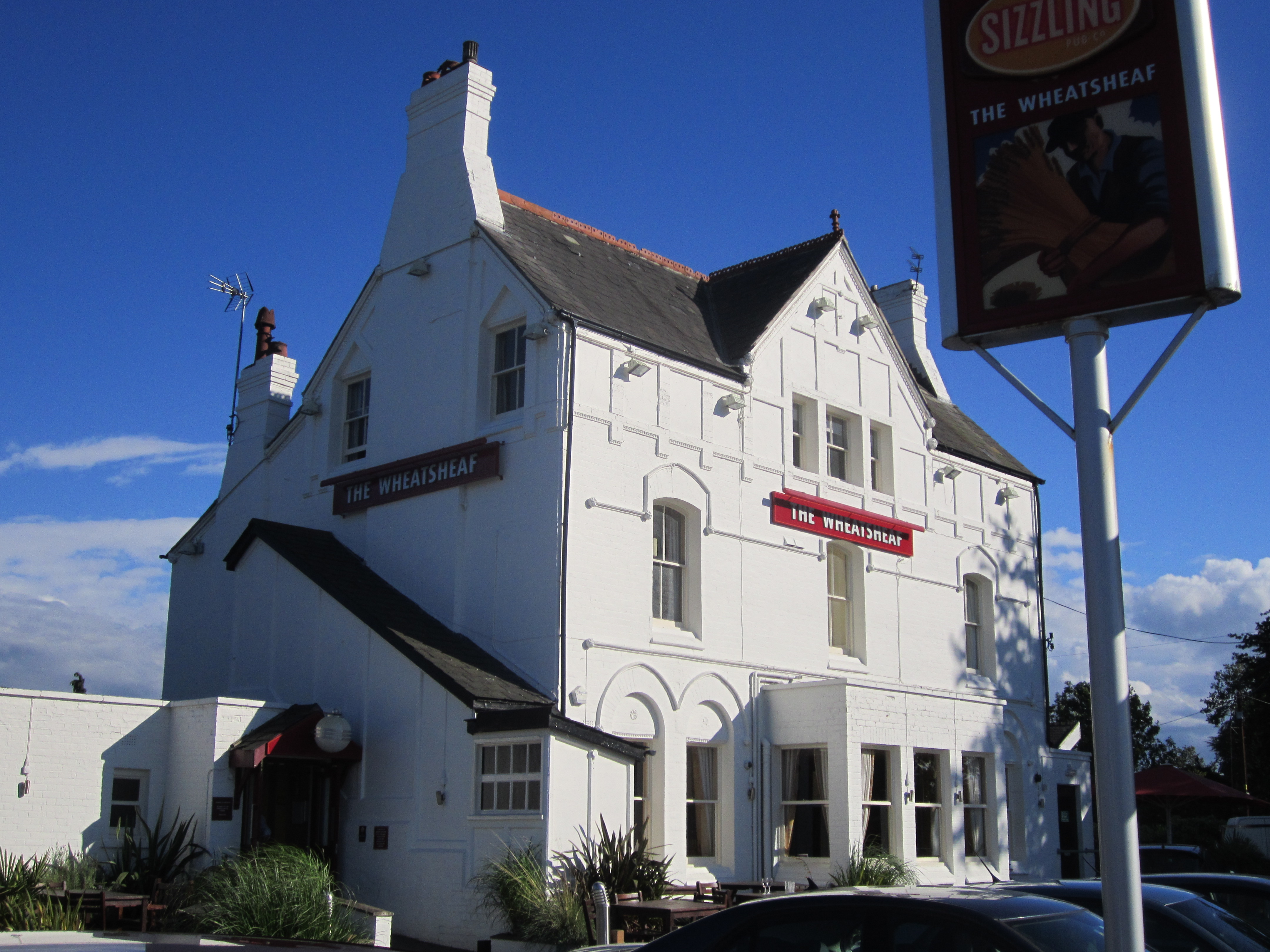 Photo taken at Upton by Chester, Cheshire, England.